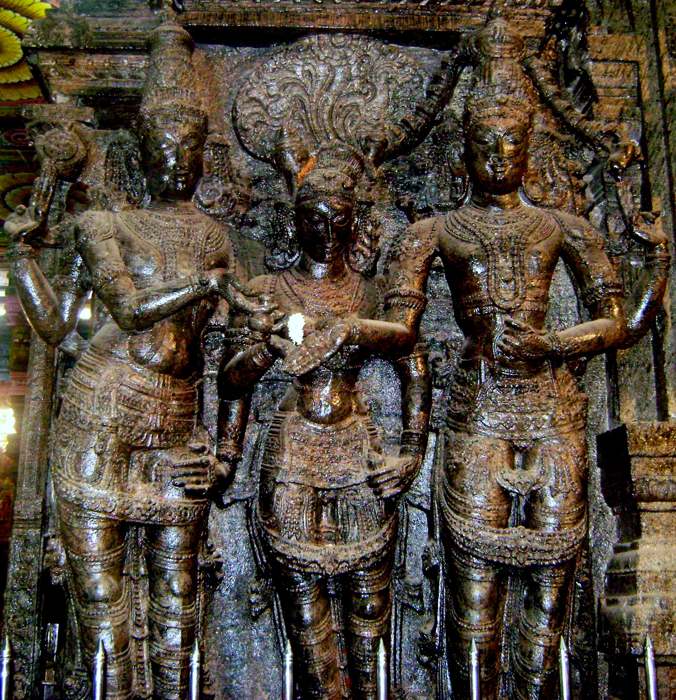 Lord Siva Weds Goddess Meenakshi, Lord Vishnu Hands Over his Sister.